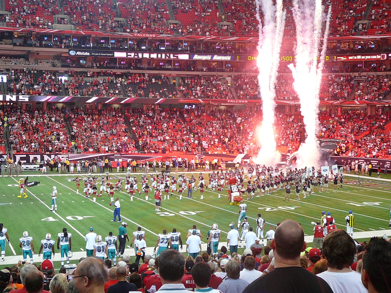 If used somewhere other than Wikipedia, Nelson, by name.